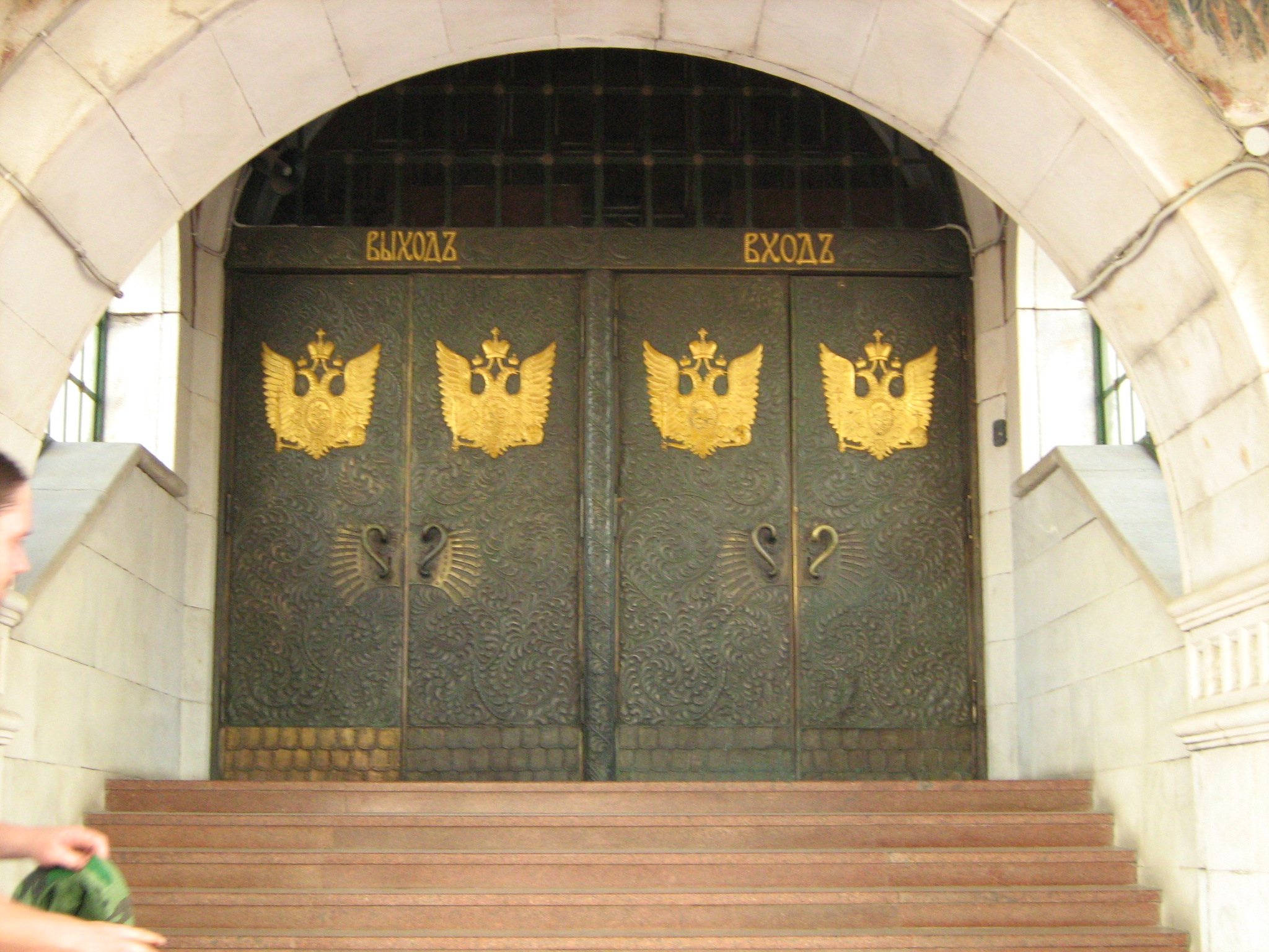 The main doors of the State Bank building (1913) in Nizhny Novgorod